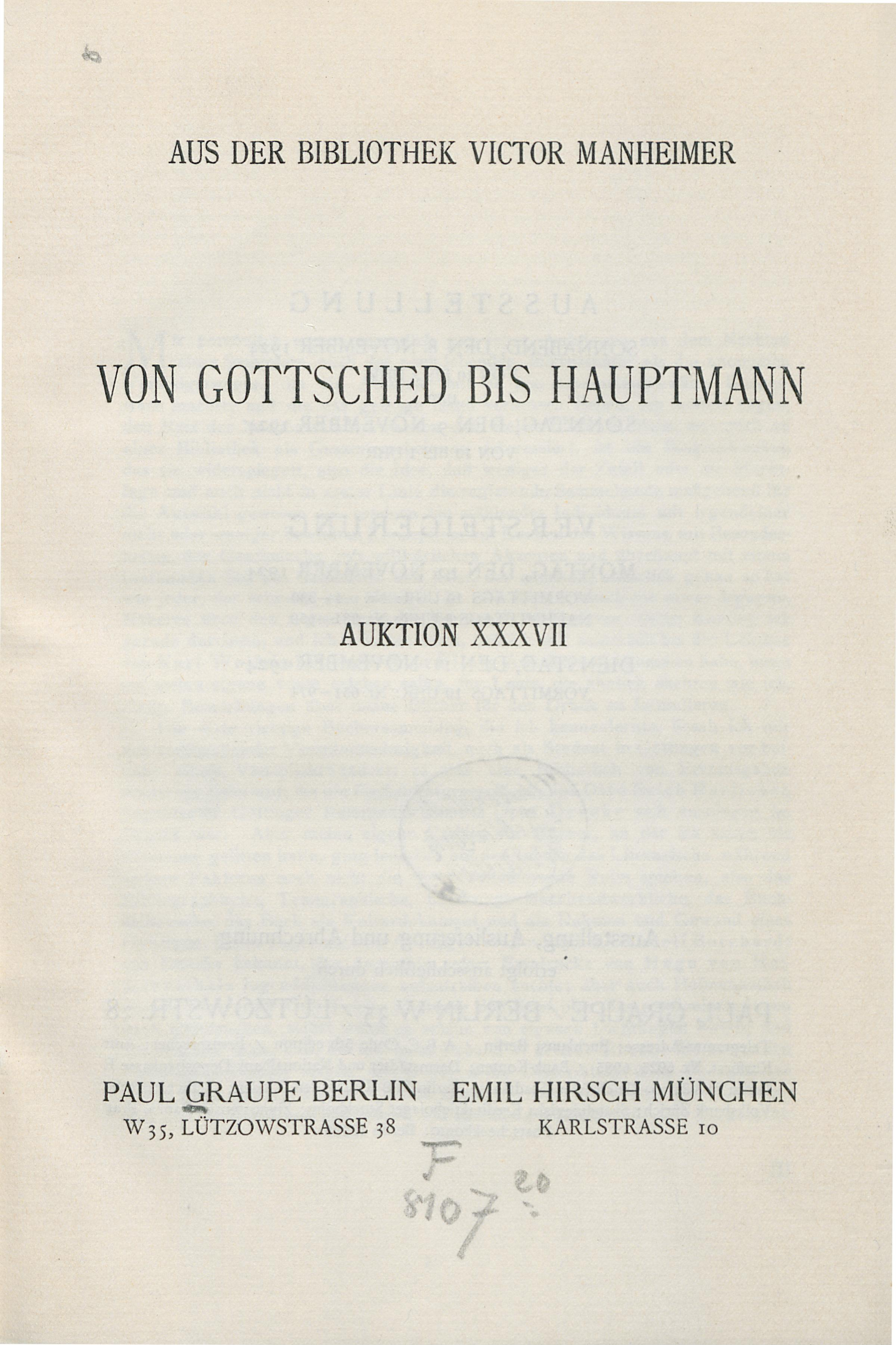 Title of auction of Victor Manheimer's books of after 1700